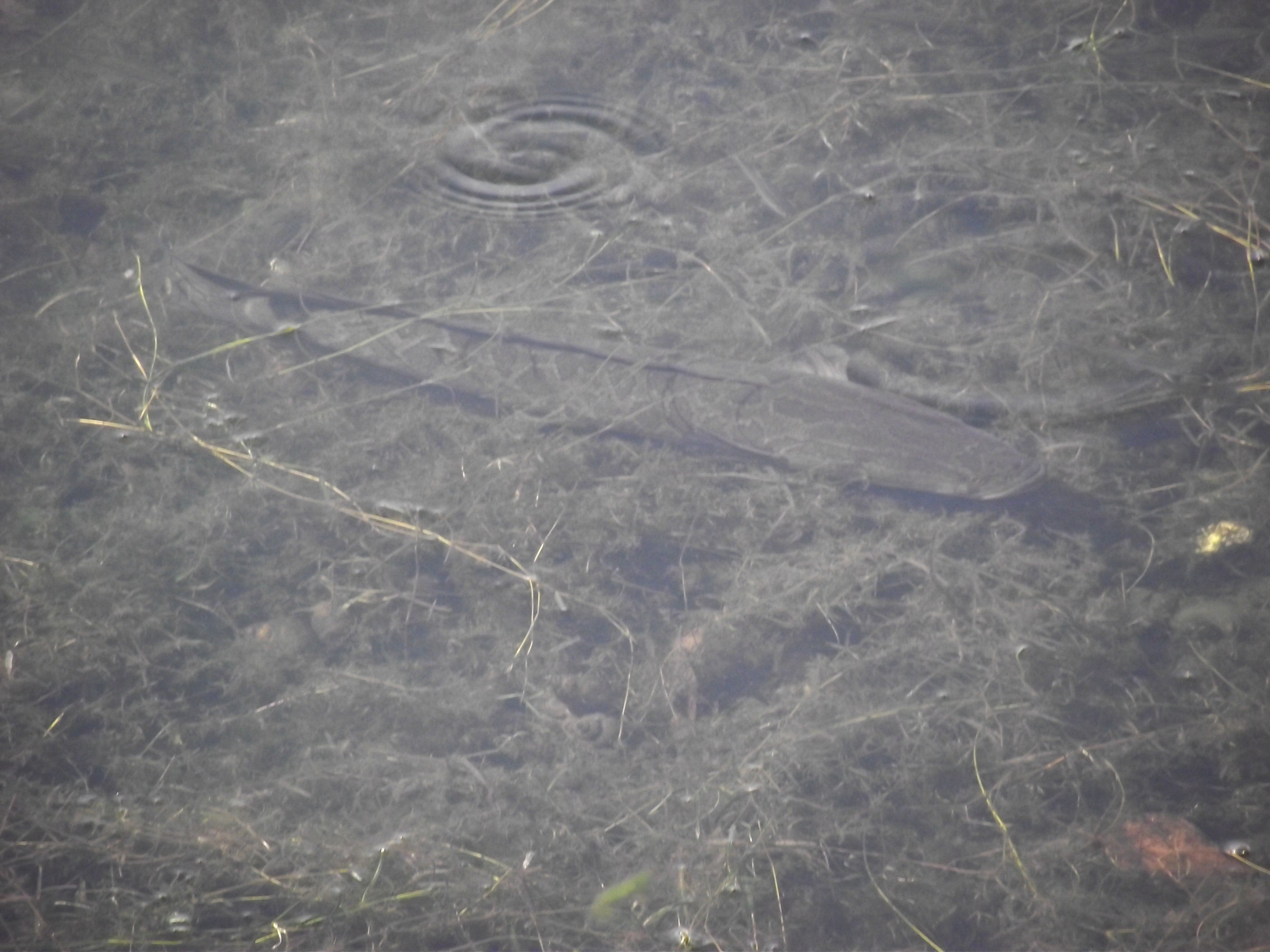 Northern snakehead on shoaliness. Northern snakehead live in shallow seaweed lakes and gulfs of the rivers. The photo is made from high coast at the maximal focal length for the given camera. Depth in this place less than one meter.